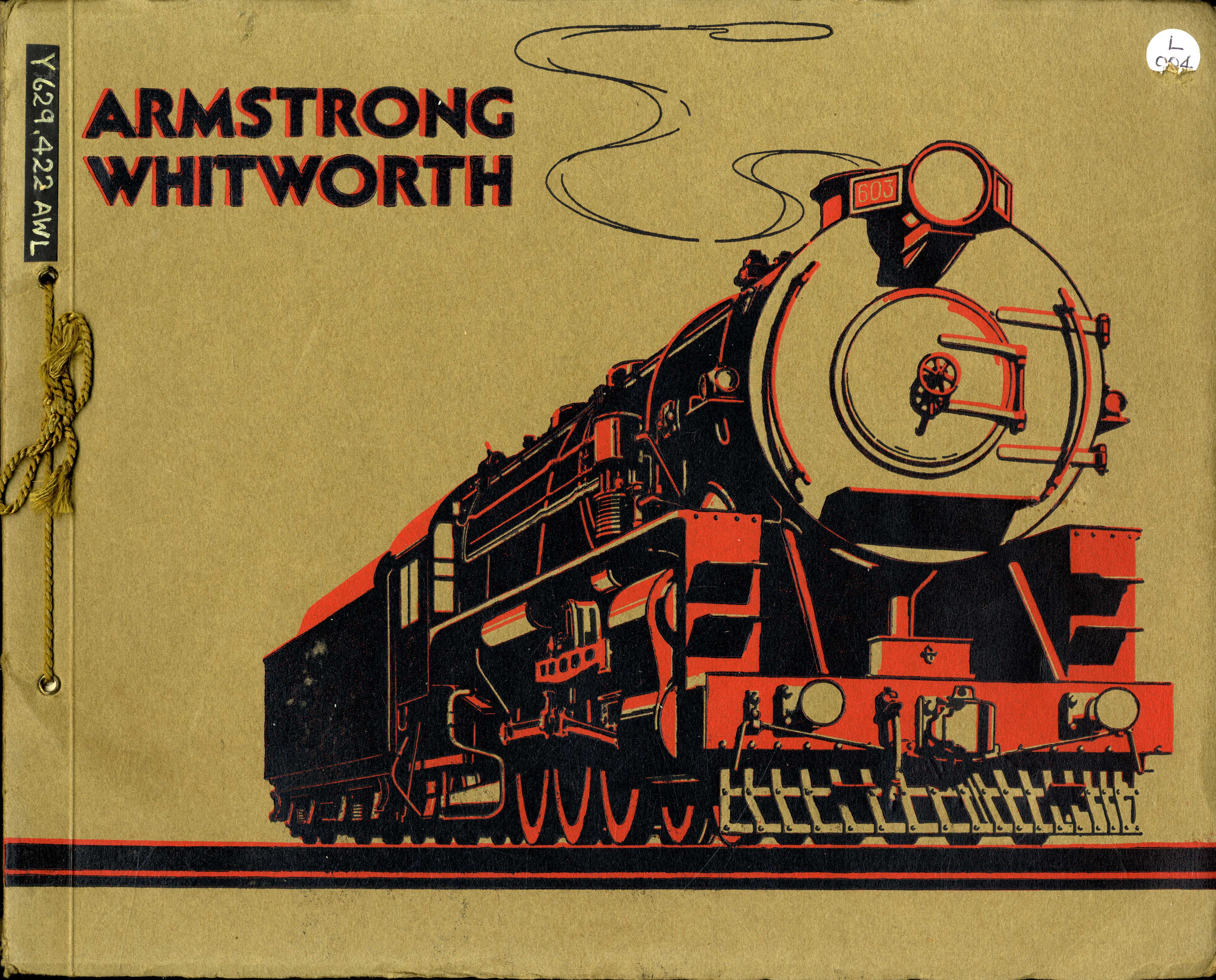 Cover of Armstrong Whitworth catalogue in the collection of the North of England Institute of Mining and Mechanical Engineers at Y629.422. The subject is a 4-6-2 ("Pacific") locomotive of the South Australian Railways (600 Class), built by the company in 1926. The image is uploaded with the permission of the Institute's librarian Jennifer Hillyard.